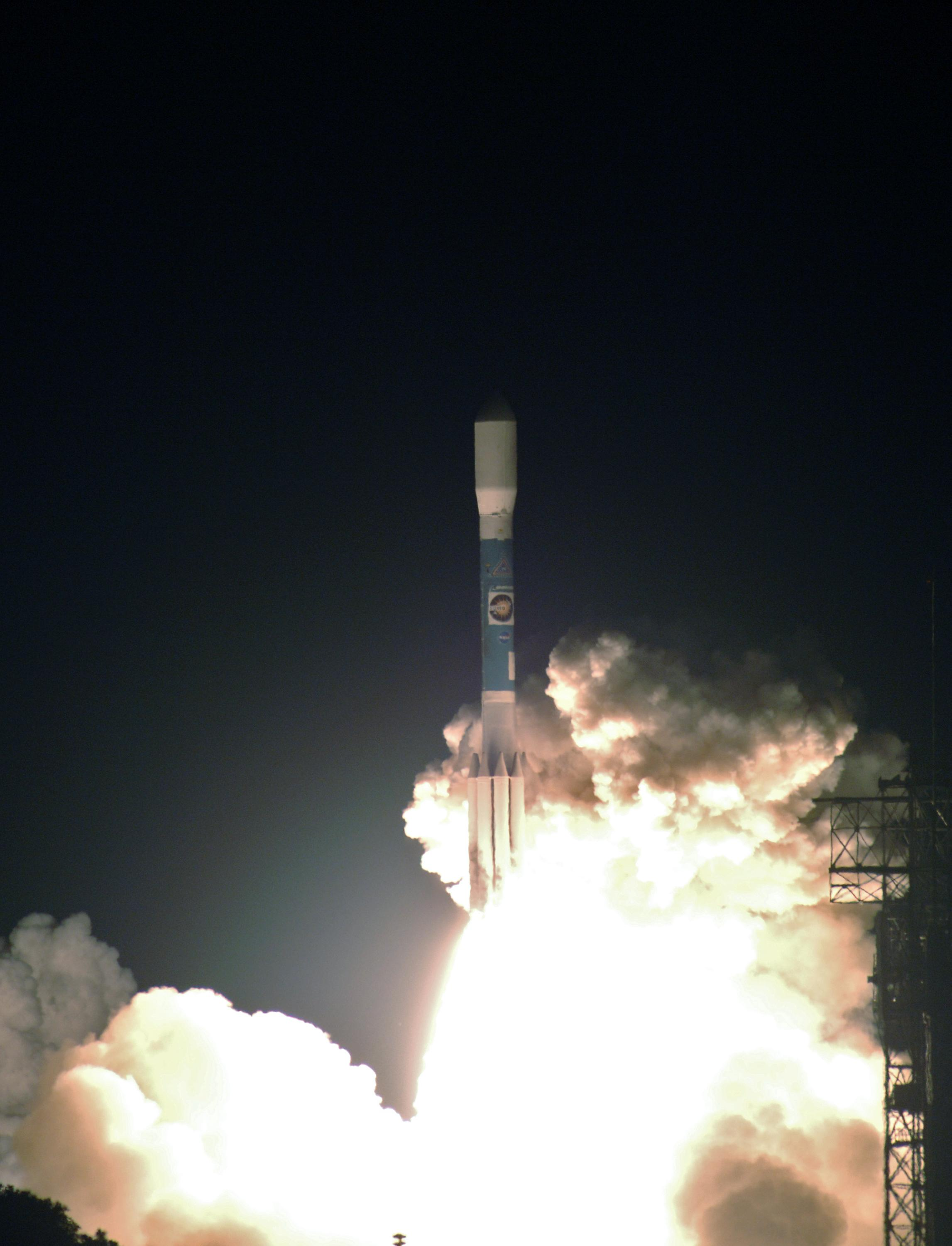 KENNEDY SPACE CENTER, FLA. – The Delta II launch vehicle carrying the STEREO spacecraft hurtles through the smoke and steam after liftoff from Launch Pad 17-B at Cape Canaveral Air Force Station. Liftoff was at 8:52 p.m. EDT. STEREO (Solar Terrestrial Relations Observatory) is a two-year mission using two nearly identical observatories, one ahead of Earth in its orbit and the other trailing behind. The duo will provide 3-D measurements of the sun and its flow of energy, enabling scientists to study the nature of coronal mass ejections and why they happen. The ejections are a major source of the magnetic disruptions on Earth and are a key component of space weather. The disruptions can greatly effect satellite operations, communications, power systems, humans in space and global climate. Designed and built by the Johns Hopkins University Applied Physics Laboratory (APL) , the STEREO mission is being managed by NASA Goddard Space Flight Center. APL will maintain command and control of the observatories throughout the mission, while NASA tracks and receives the data, determines the orbit of the satellites, and coordinates the science results.